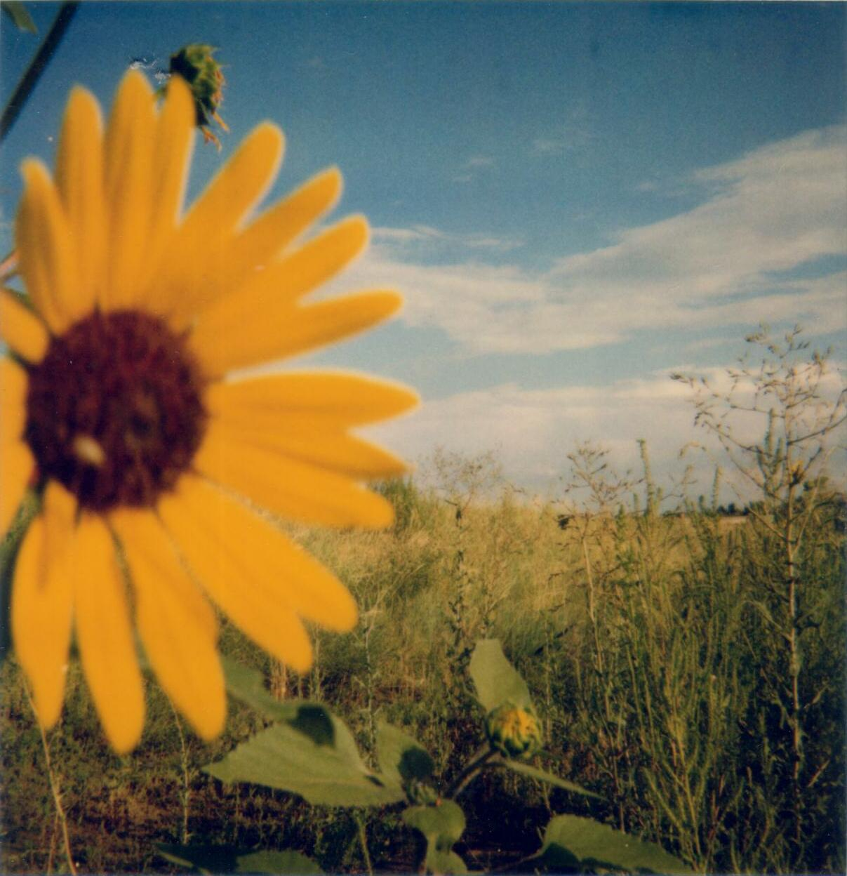 A sunflower shot on slightly expired Polaroid 600 film, with a 600 camera